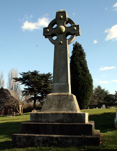 Photo of the memorial erected by public subscription in one of my local cemeteries to the victims of the sinking of the Steam Passenger Ship Princess Alice. Photograph taken by me 5/3/2006